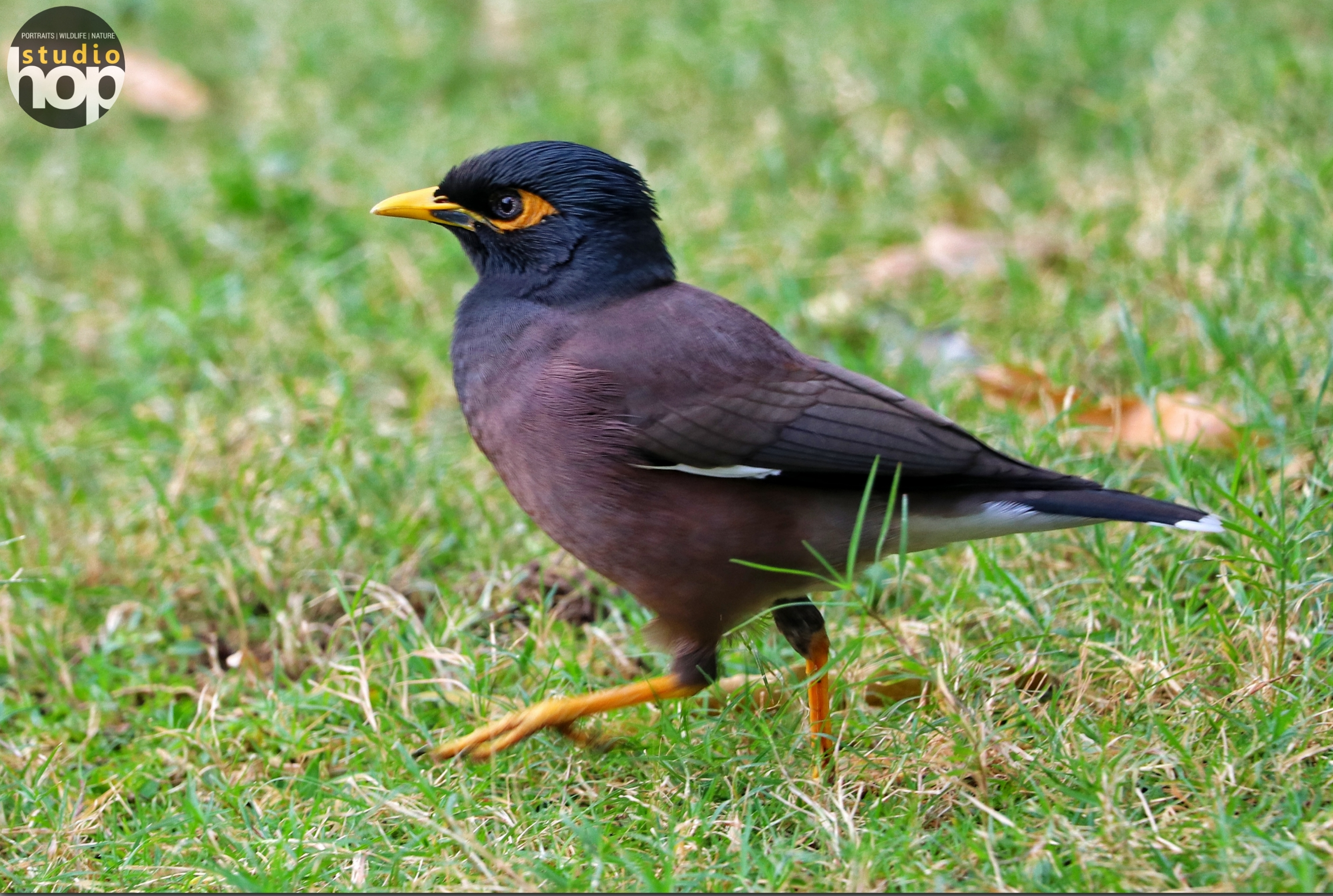 Seen in Ahmedabad, India